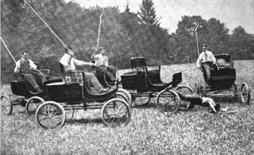 Members of the Dedham Polo Club in Boston play a game of auto polo in Mobile Roundabouts in 1902. Auto polo was a popular sport in the first quarter of the 20th century.